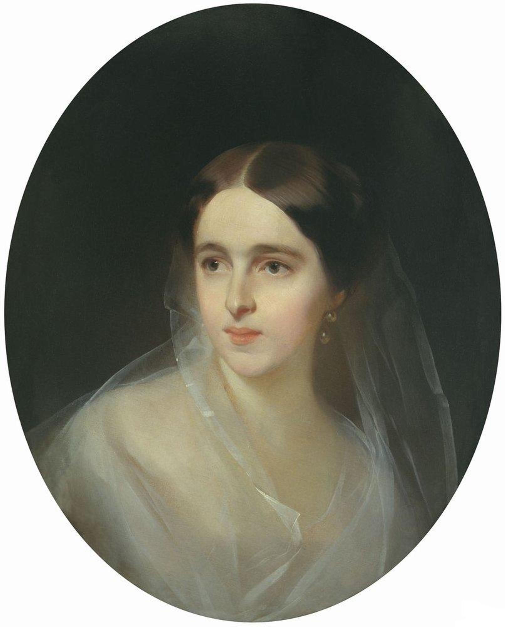 Natalia Nikolaevna Pushkina-Lanskaya (née Goncharova), wife of the Russian poet Alexander Pushkin. Painting by Ivan Makarov (1849).